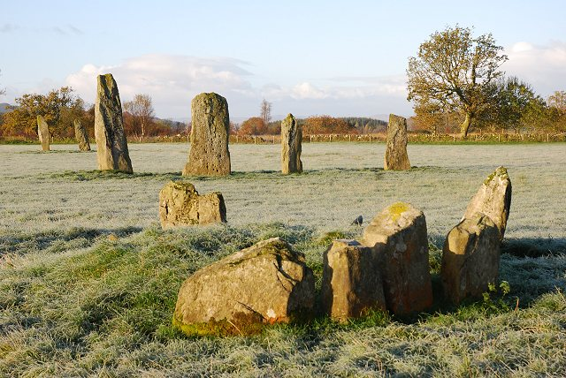 Standing stones and remains of chambered cairn The Ballymeanoch standing stones form two groups set in parallel lines. The smaller stones in the foreground are the remains of a small cairn.